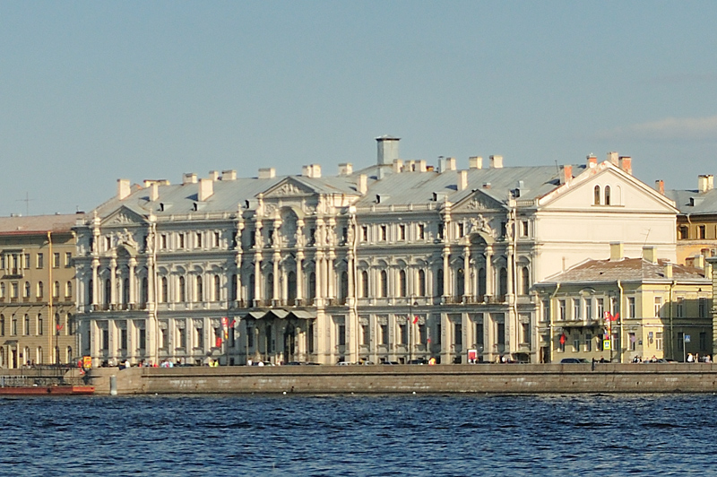 Novo-Mihailovsky Palace (Saint Petersburg)